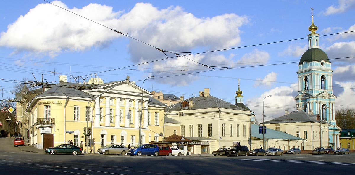 Yauza Gates, Moscow, Russia. Church of Trinity in Serebryaniki (silversmith's neighborhood) by Karl Blank, 1781